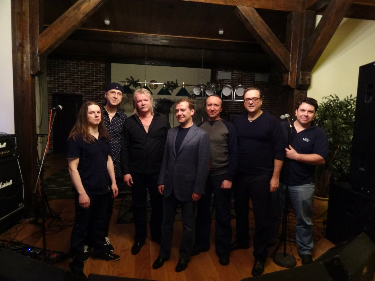 Sergey Skachkov Zemlyane + Dmitriy Medvedev prezident Russia, 21.01.2012(1)